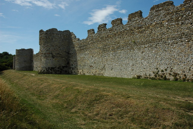 Castle wall, Portchester Castle This is the south wall of the outer bailey of Portchester Castle, the walls surrounding the outer bailey enclose an area of nine acres and were built by the Romans in the 280s AD. This is the most complete example of a Roman fort north of the Alps.